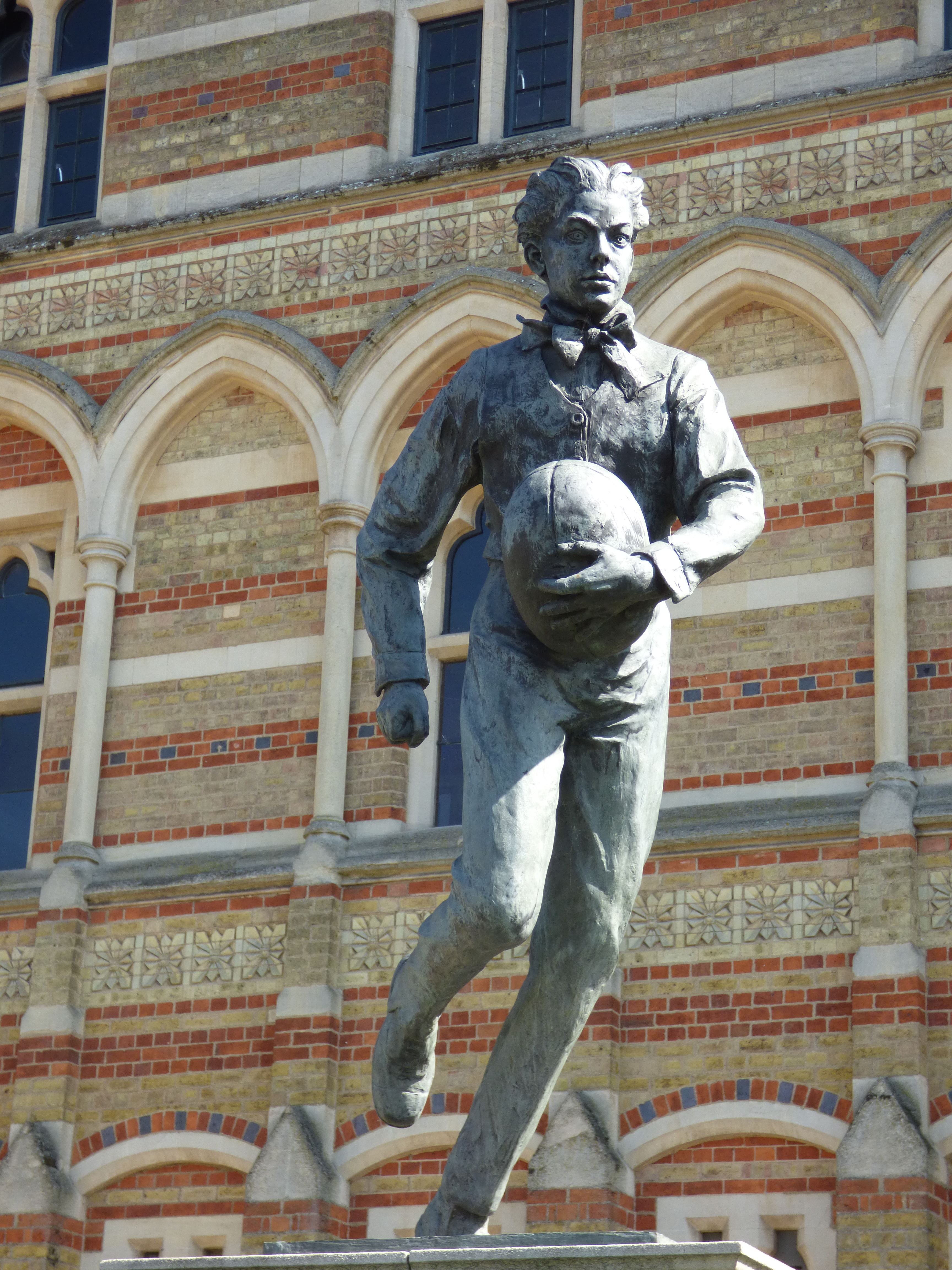 Rugby School as seen on Dunchurch Road in Rugby. It was here that William Webb Ellis ran with a ball in 1823, and invented the sport of Rugby Football. He is immortalised with a statue outside of the school. The school buildings also run alongside Lawrence Sheriff Street. The bronze statue of William Webb Ellis, sculpted by Graham Ibbeson and unveiled in 1997. William Webb Ellis is shown running with the ball. Figure surmounts base which is surrounded by decorative iron railings and floral planting. Plain pedestal base with cornice. Cast using the lost wax technique. Ibbeson modelled the statue on his own son. It was unveiled by Jeremy Guscott. It was funded by a variety of local organisations in collaboration with various Rugby football associations. It is now owned by the Rugby Borough Council. An earlier stone tablet in the school also commemorates Ellis. William Webb Ellis (1805 - 1872) British sportsman, and reputedly the inventor of rugby football. According to a rather doubtful tradition, he was a pupil at Rugby School in 1823 when he broke the rules by picking up and running with the ball during a game of association football, thus inspiring the new game of rugby. On bronze plaque: 'THE LOCAL BOY WHO INSPIRED / THE GAME OF RUGBY FOOTBALL / ON THE CLOSE AT RUGBY SCHOOL IN / 1823. / SCULPTOR: GRAHAM IBBSEON / 1997' It is in front of the Grade II* listed New Quad Buildings at Rugby School